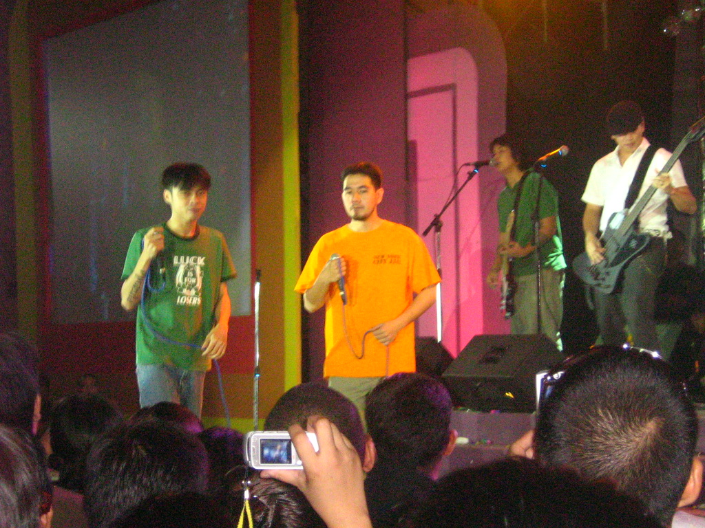 Parokya ni Edgar, one of the Philippines' best known rock band. Photo taken December 2007 by Exec8 during their company's Christmas party. (From left - right: Chito Miranda, Vinci Montaner, Gab Chee Kee, and Buwi Menesis)